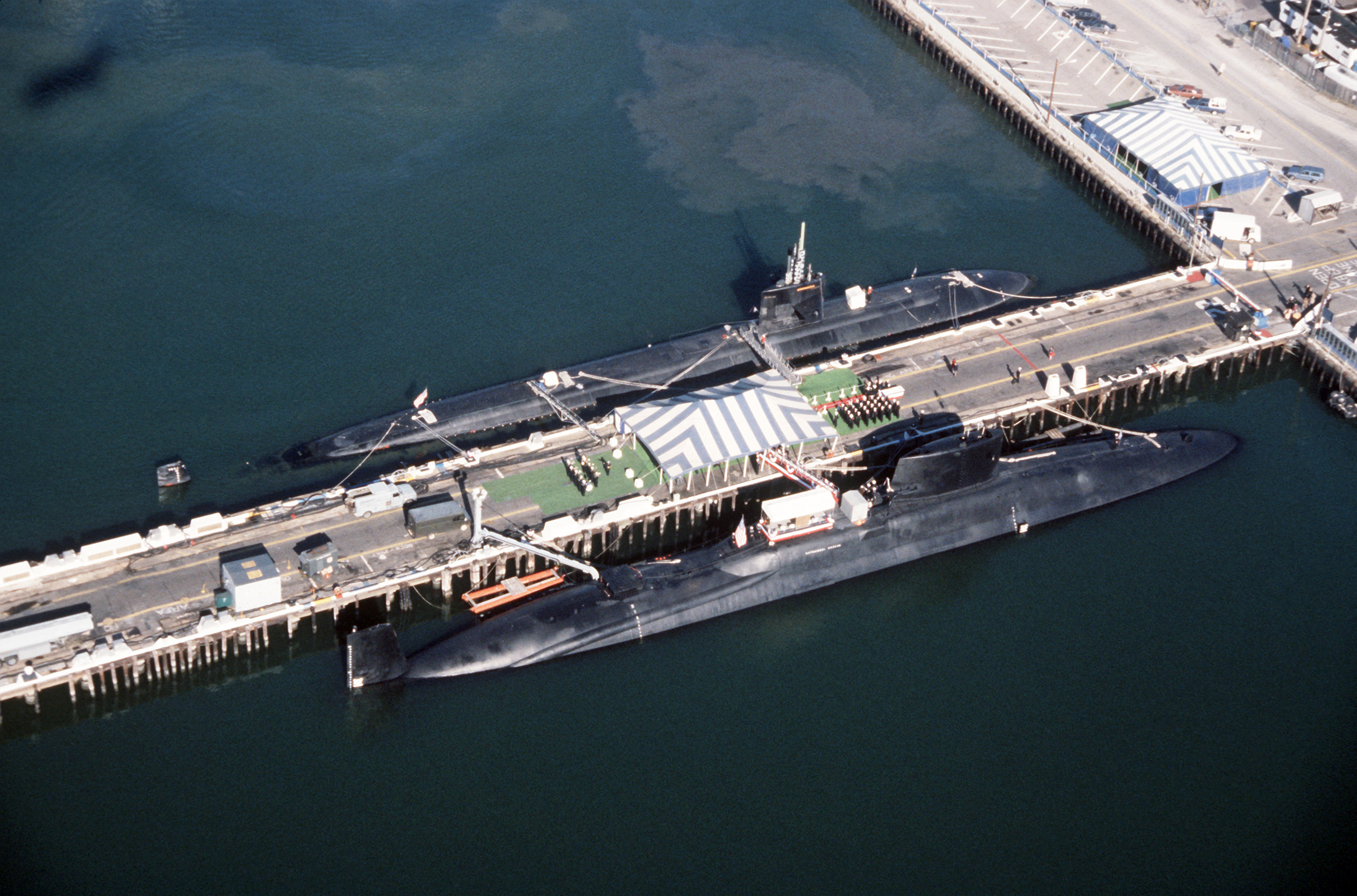 An elevated view of the nuclear-powered attack submarine USS BALTIMORE (SSN 704) and the nuclear-powered fleet ballistic missile submarine USS NATHANAEL GREENE (SSBN 636), foreground, moored at Pier No. 22 of the naval station. The NATHANAEL GREEN is being decommissioned.Location: NAVAL STATION, NORFOLK, VIRGINIA (VA) UNITED STATES OF AMERICA (USA)